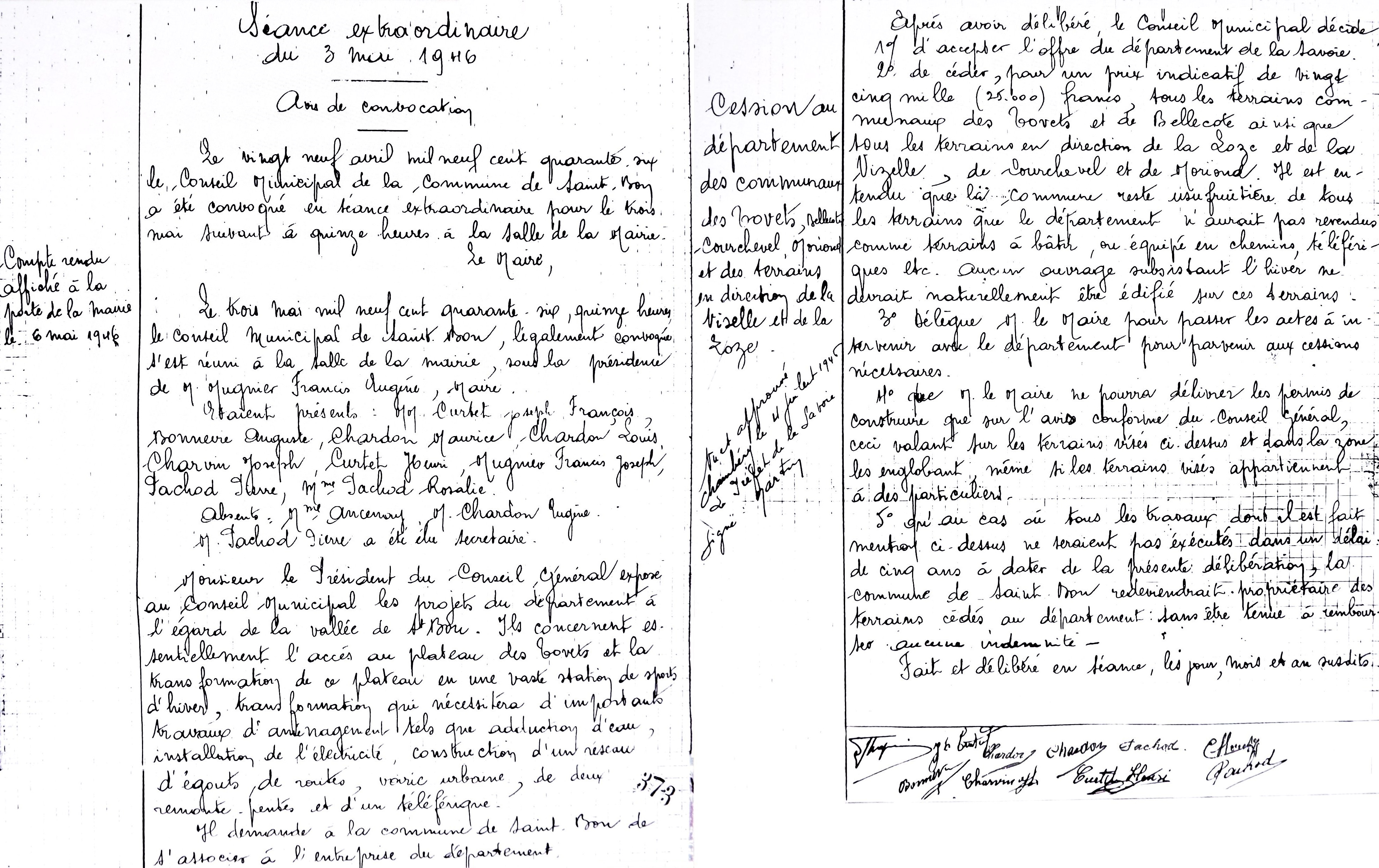 Public report of May, 3rd 1946 special session of the Municipal Council of Saint-Bon (Savoie, France), about the creation of future Courchevel ski resort.